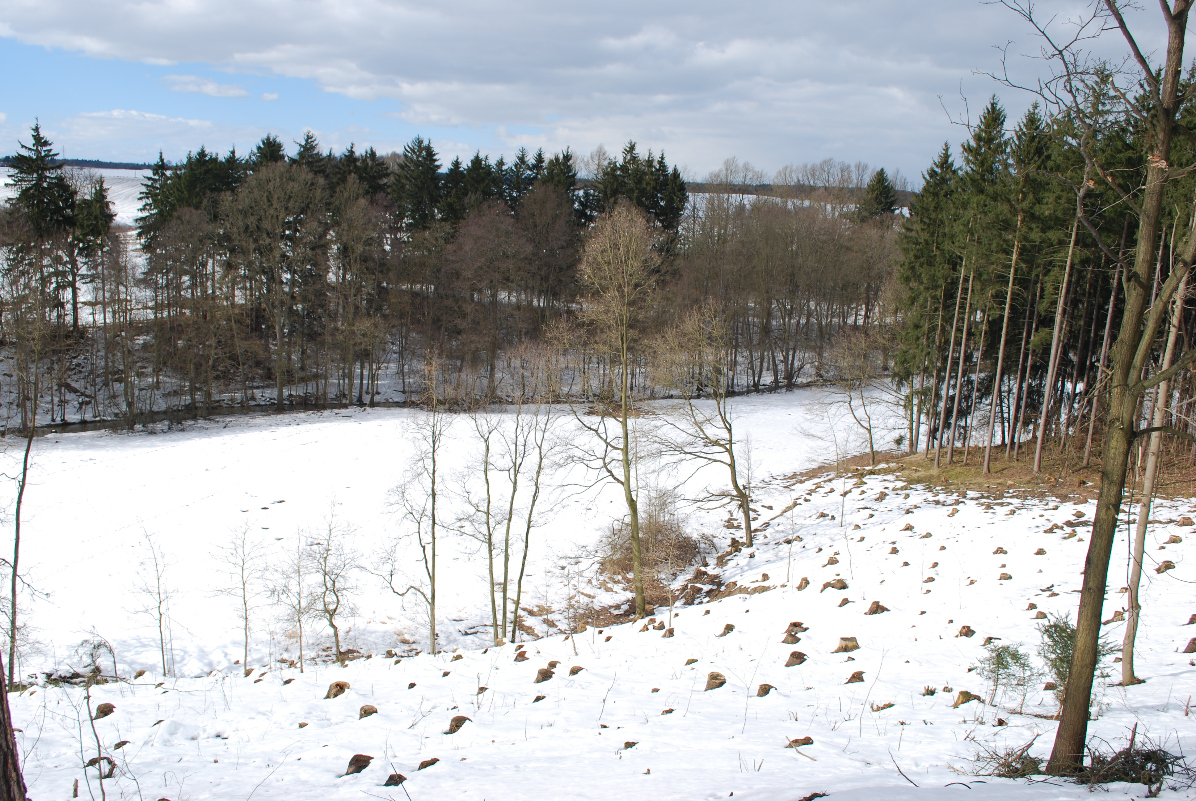 Oltyňský stream near Stádlec village in Tábor District, Czech Republic. This photograph was taken within the scope of the 'Czech Municipalities Photographs' grant.